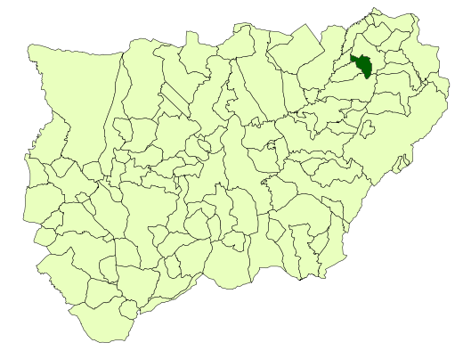 Situation of the municipality of Puente de Génave (Jaén, Spain).